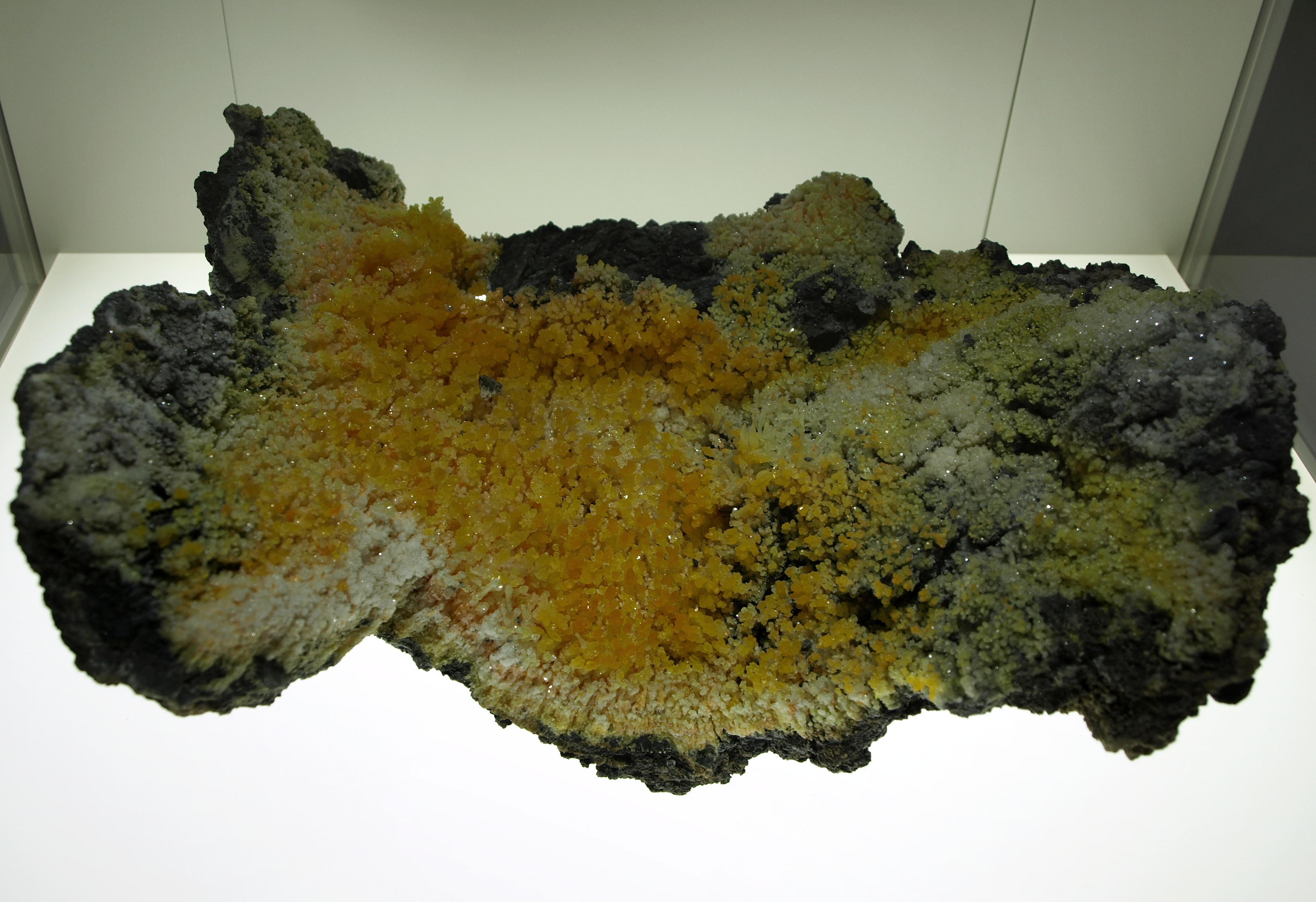 Sulfur and Salammoniac, efflorescence because of burning heap - Locality: heap of the Oberhausen mine, germany - Exposed in the Ruhr Museum at Zollverein Coal Mine Industrial Complex